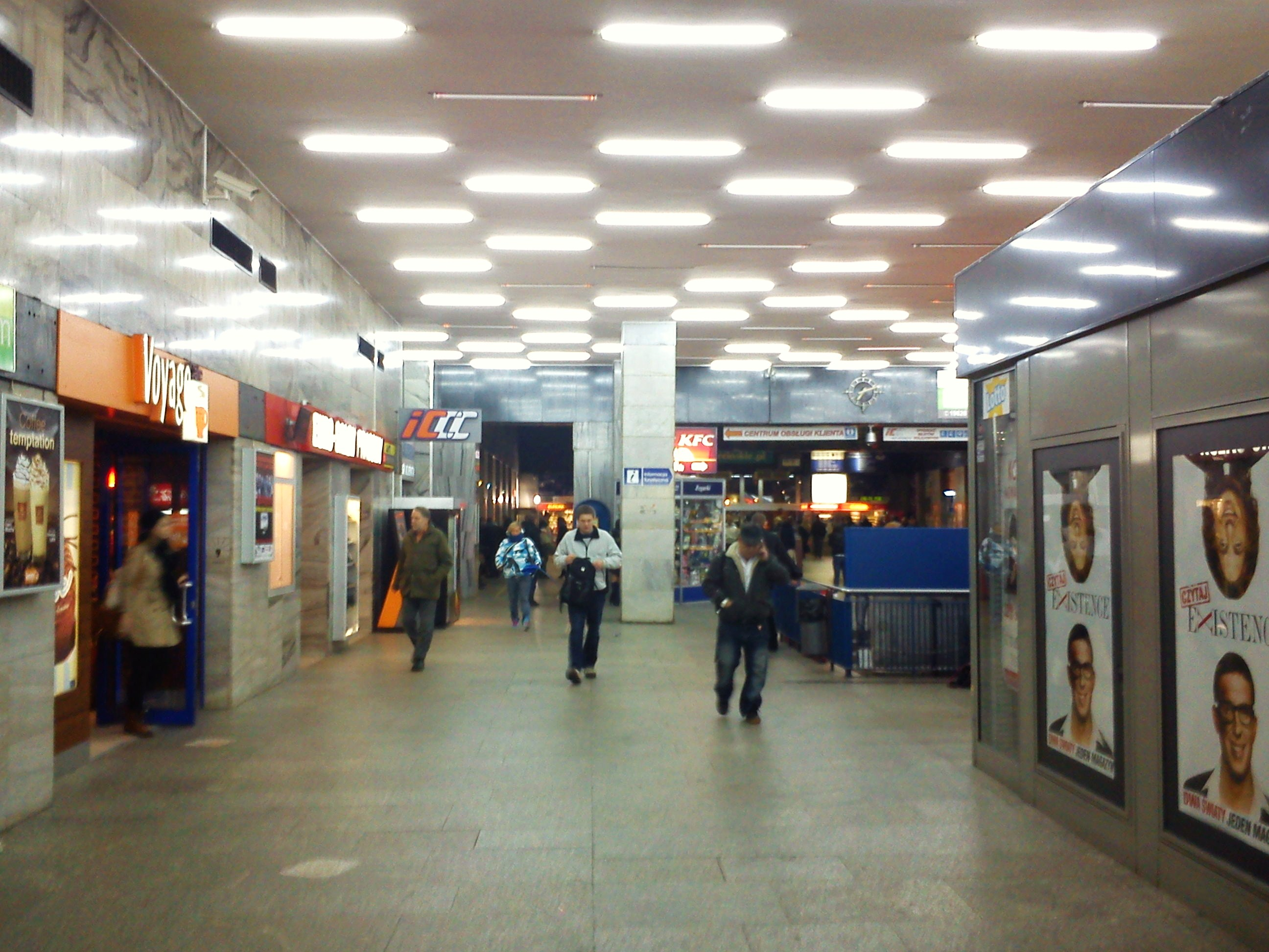 The interior of the main train station in Poznan. Station will be completely rebuilt. 11.11.2011.